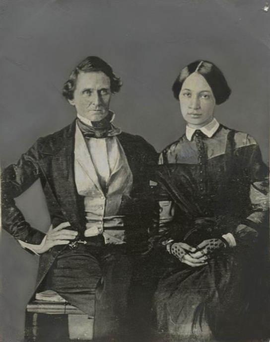 Varina Howell and Jefferson Davis' wedding picture